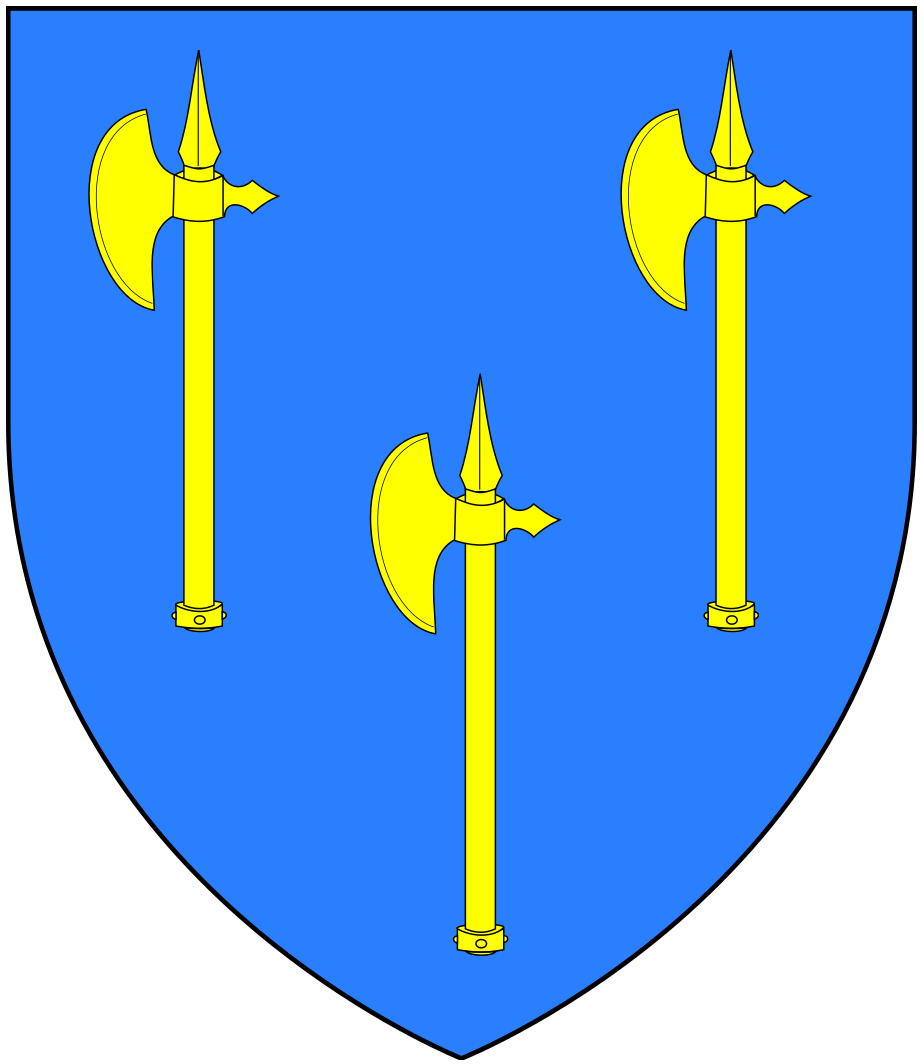 Arms of Denys of Orleigh, Devon: Azure, three Danish battle axes erect or (Vivian, Heraldic Visitationms of Devon, 1895, p.281). Versions 16 October 2015 and before based on axe shape seen on ledger stone of Elizabeth Denys (1625-1664) on floor of Orleigh Chapel, Buckland Brewer Church, Devon.